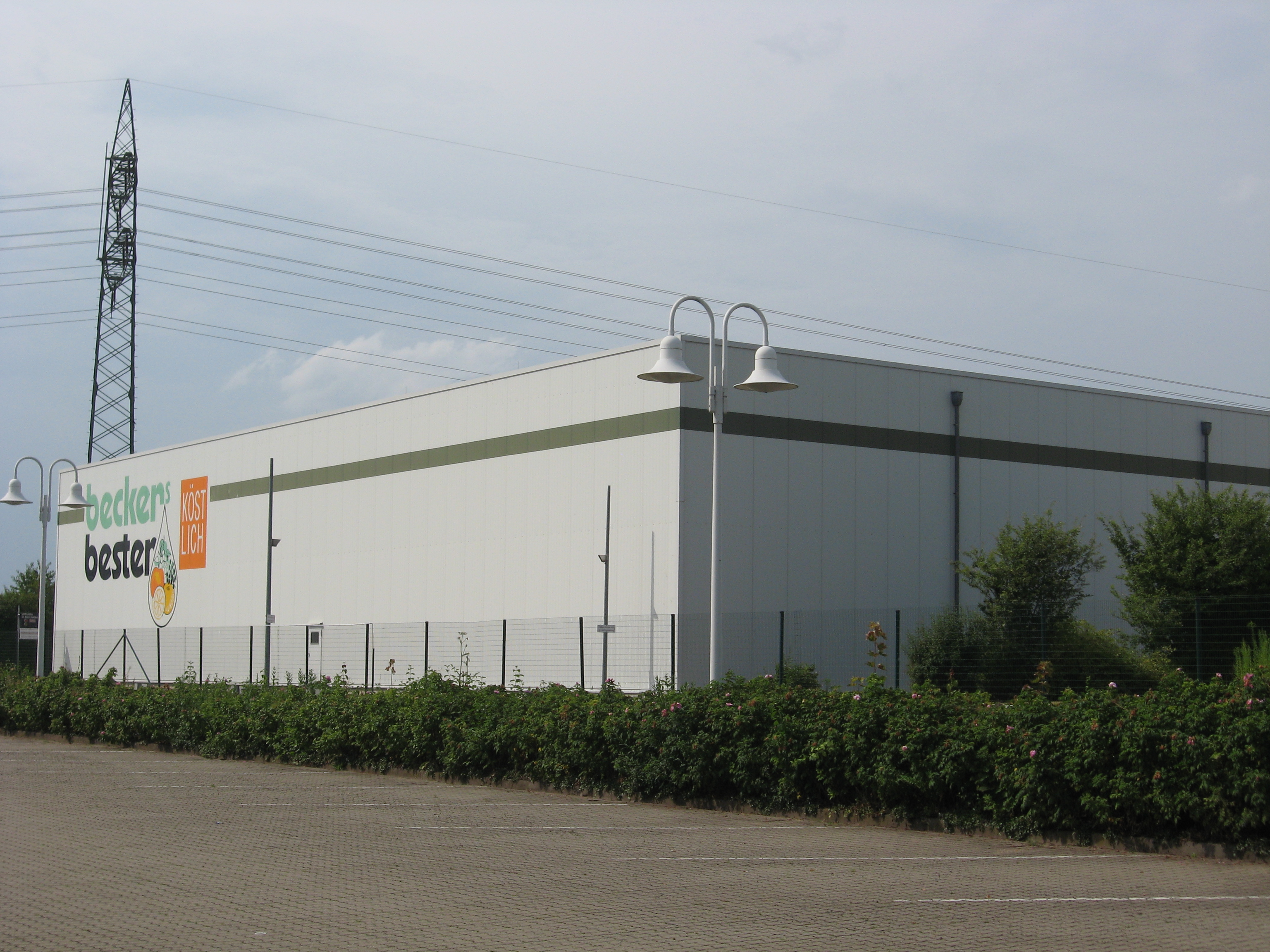 Beckers Bester, Nörten-Hardenberg, Germany check usage